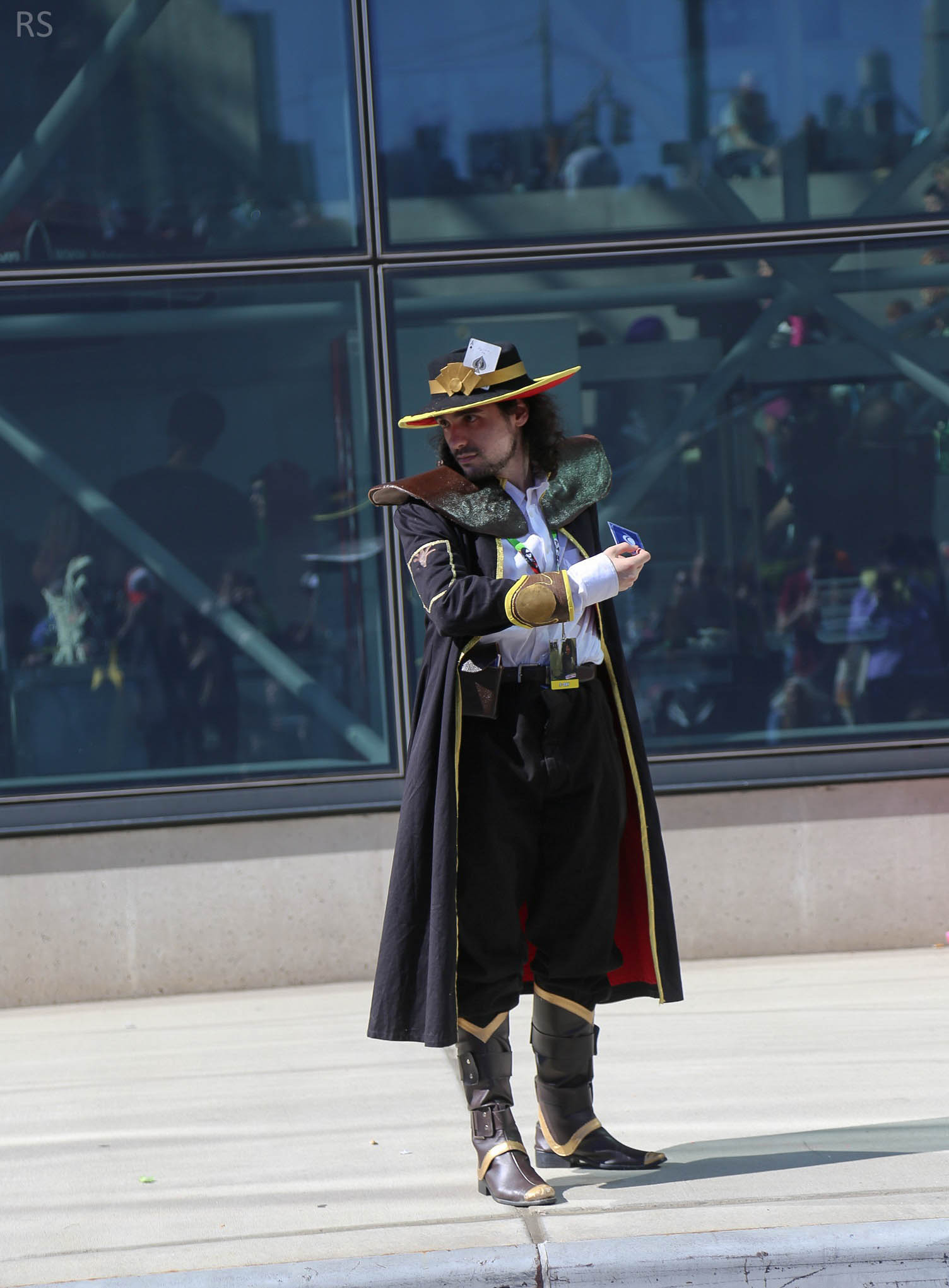 New York Comic Con 2015 - Twisted Fate Cosplay at the 2015 New York Comic Con (NYCC 2015).